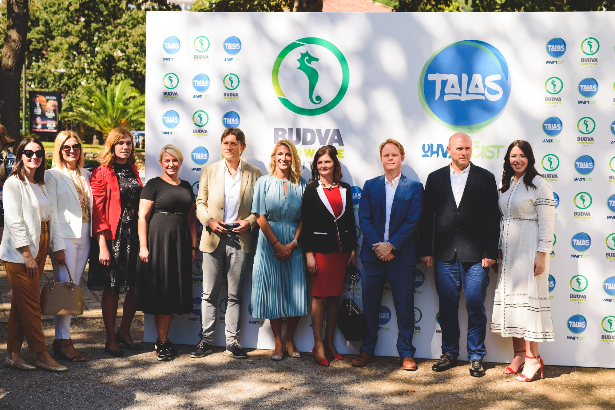 Coca Cola Zero Waste City Event - Budva, Montenegro